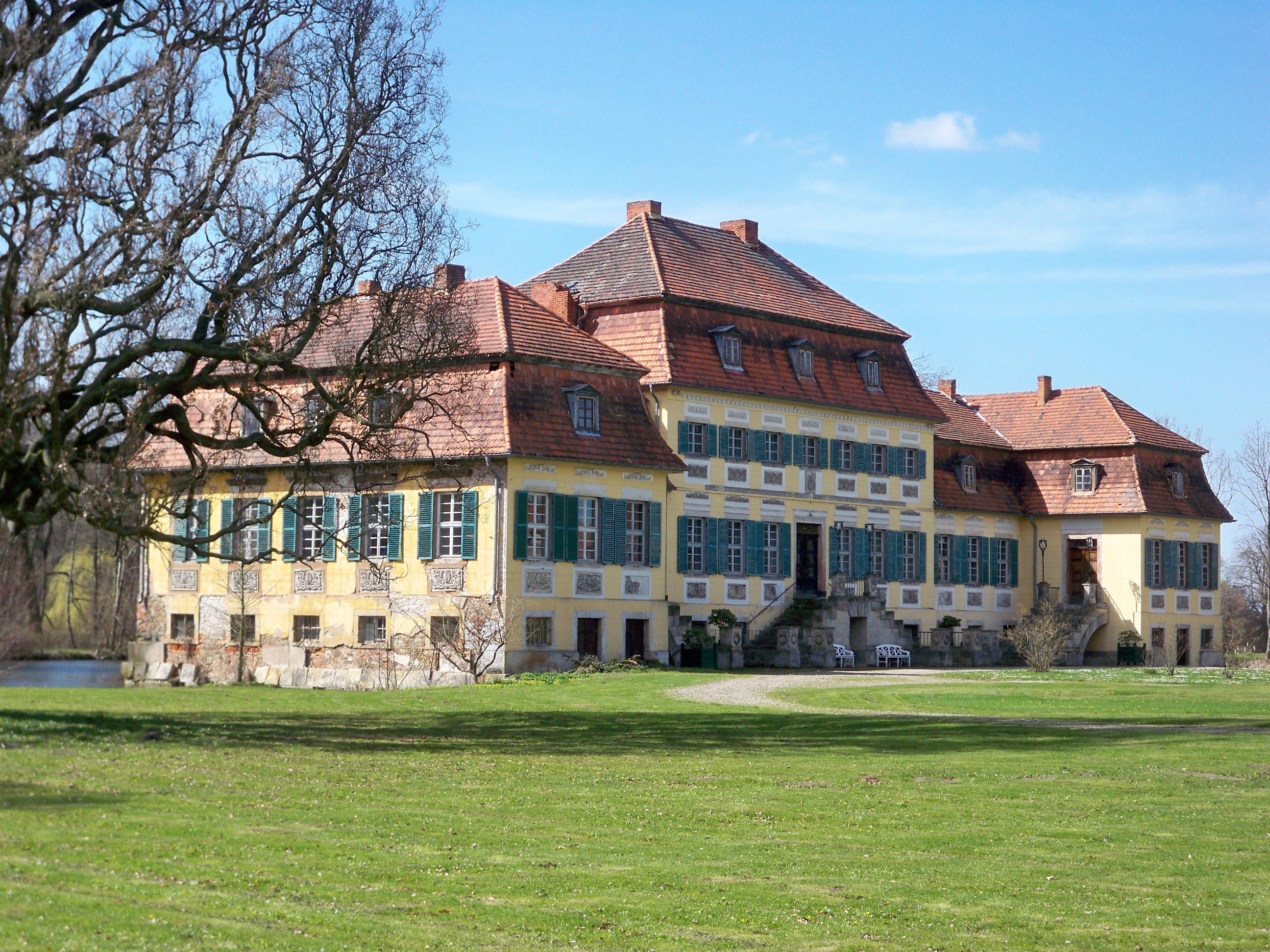 Seggerde, Oebisfelde-Weferlingen, Saxony-Anhalt, manor house in park, front view